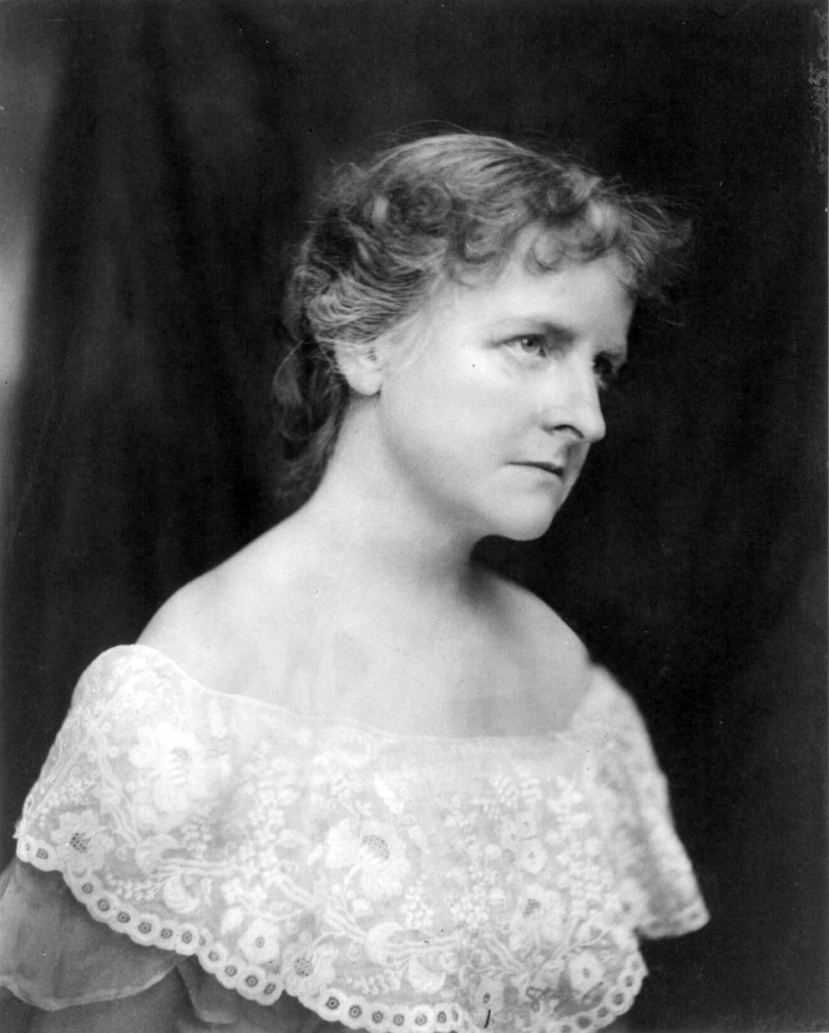 Mary Eleanor Wilkins Freeman, American author